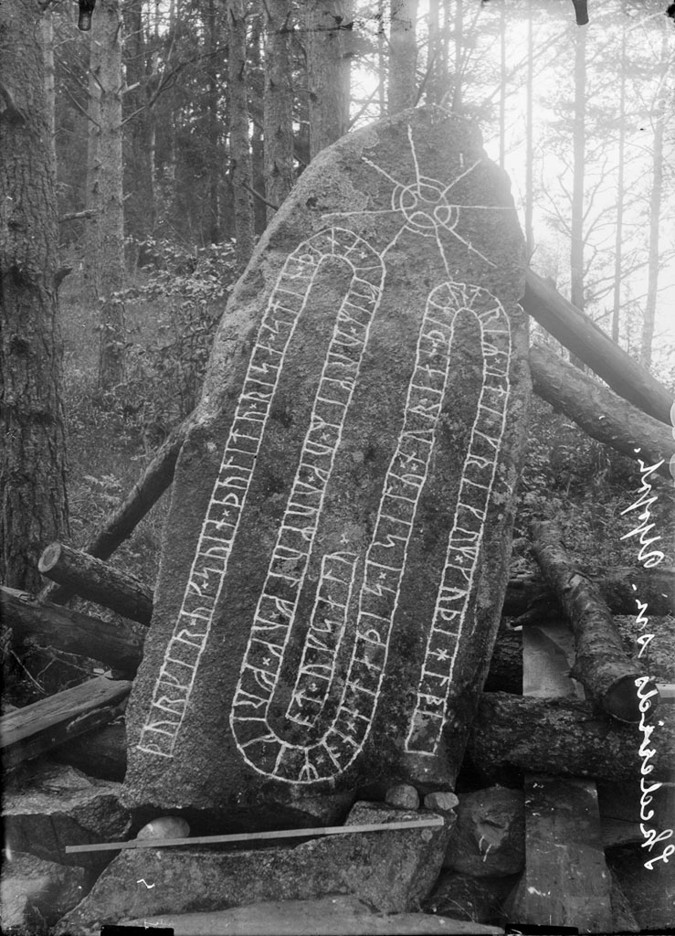 Rune stone (U 518) in Västra Ledinge. The inscription says: "Torgärd and Sven, they had this stone raised in memory of Ormer and Ormulv and Fröger. He met his end in the sound of Sila (Selaön island), and the others abroad in Greece. May God help their spirits and souls".